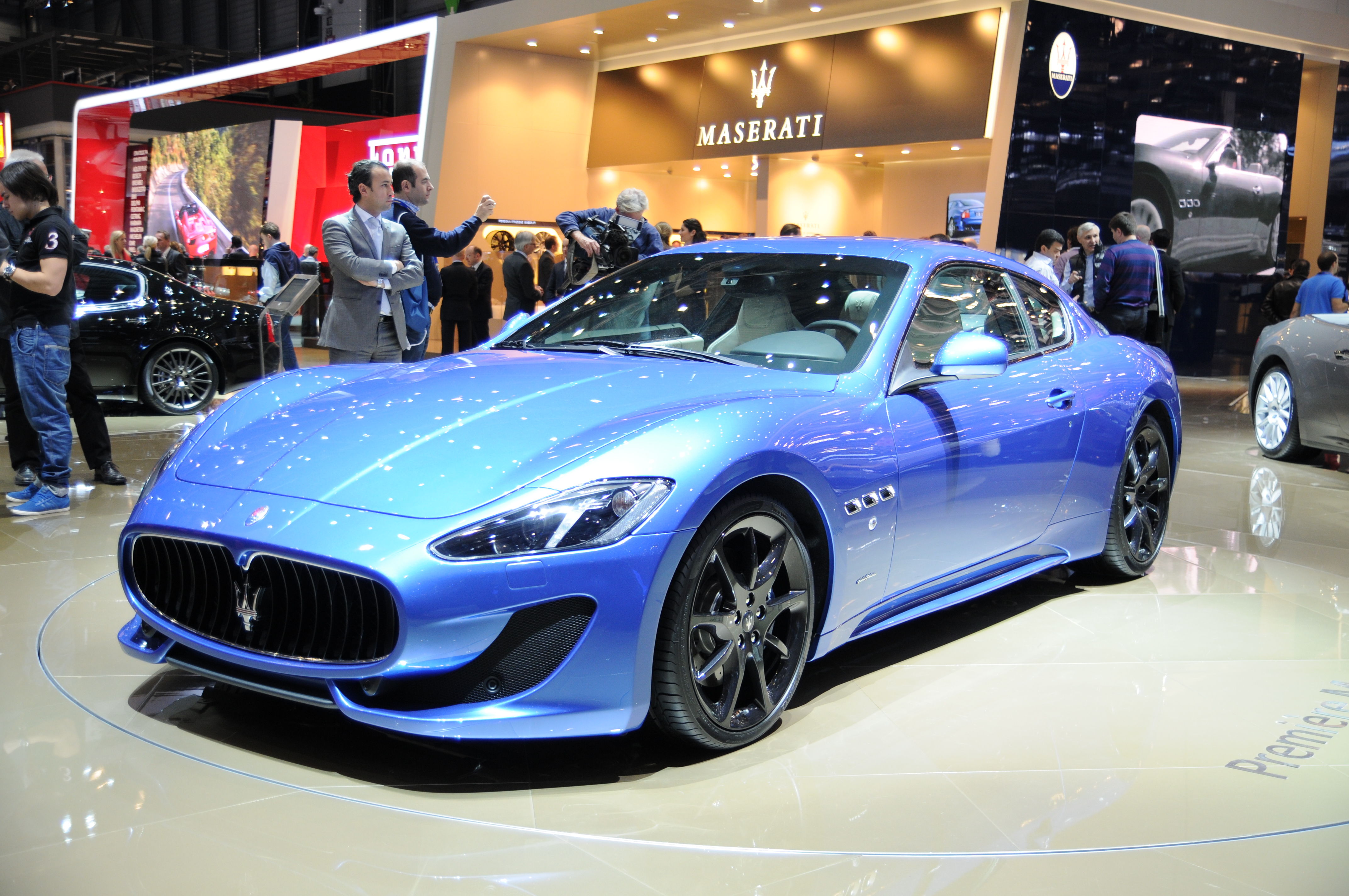 Geneva Motor Show 2012 (photos taken on the second press day)